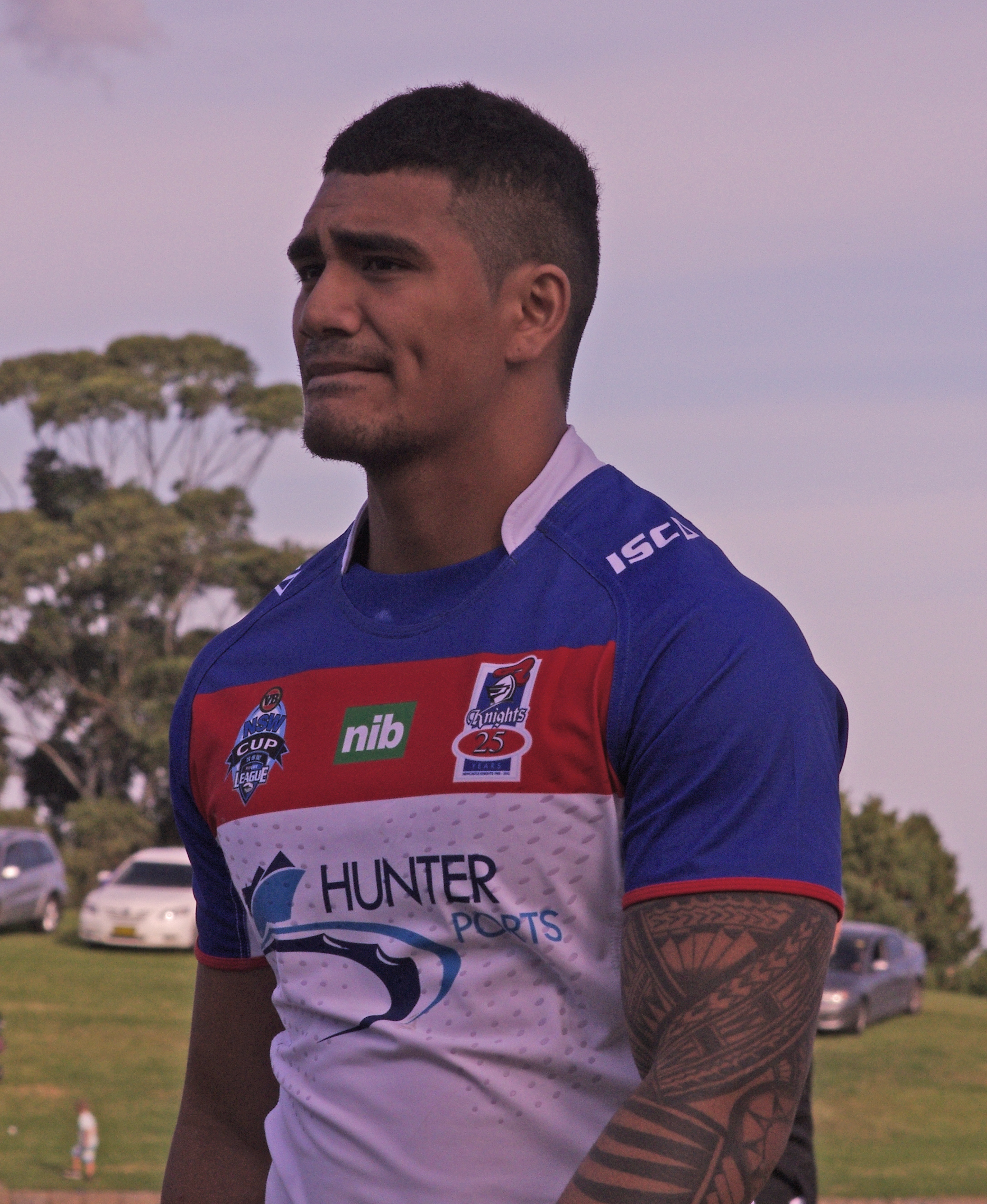 Peter Mata'utia